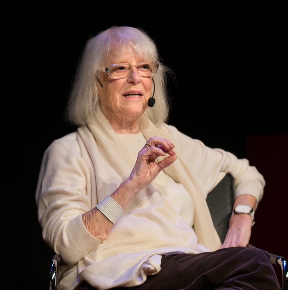 Birgitta Ulfsson during a conversation with Anna Takanen and Iwar Wiklander in "Anna's corner" at Kulturhuset Stadsteatern in Stockholm on October 18, 2016.